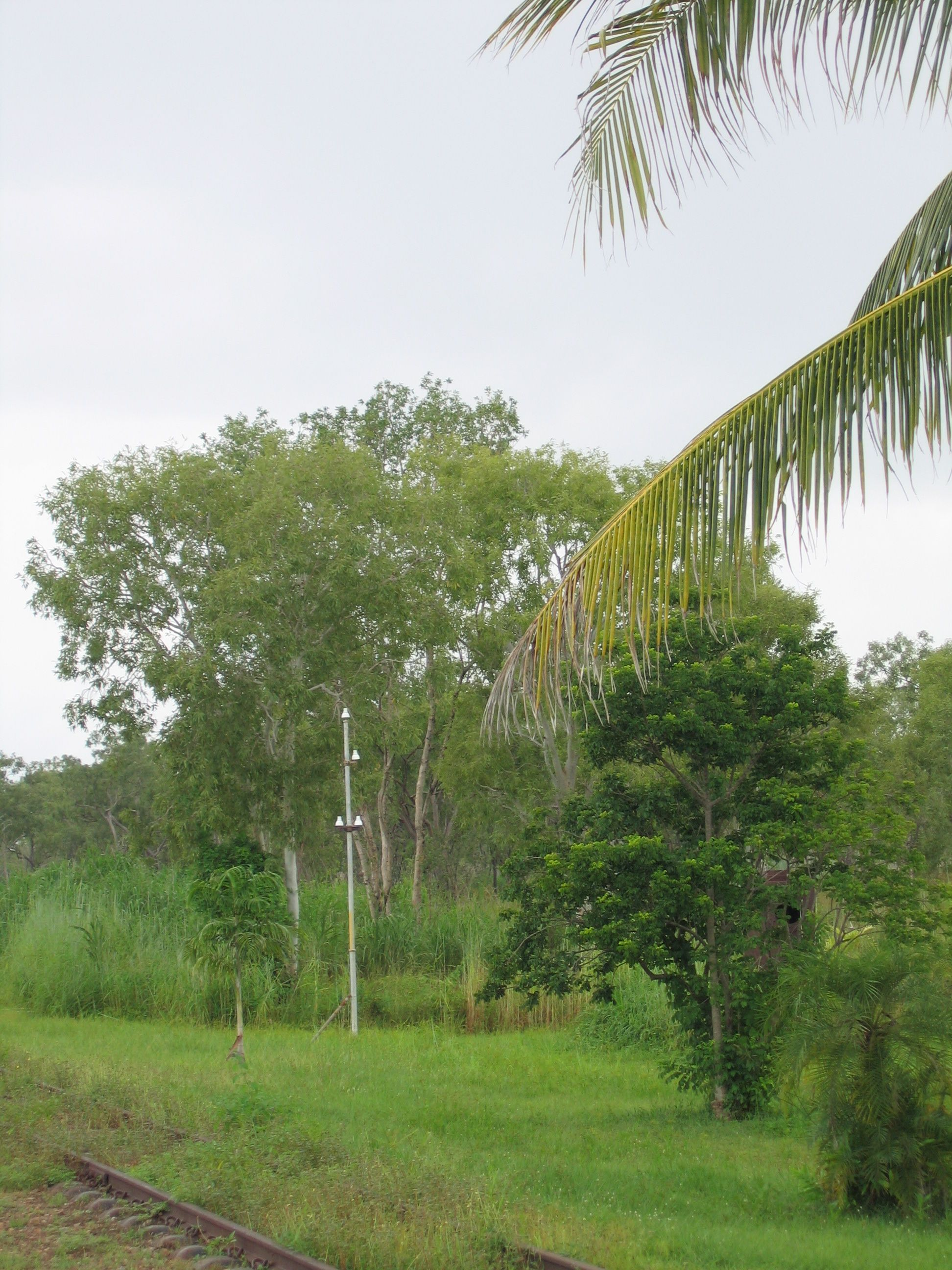 Pole for 4 Lines of Transaustralien Telegraph Line